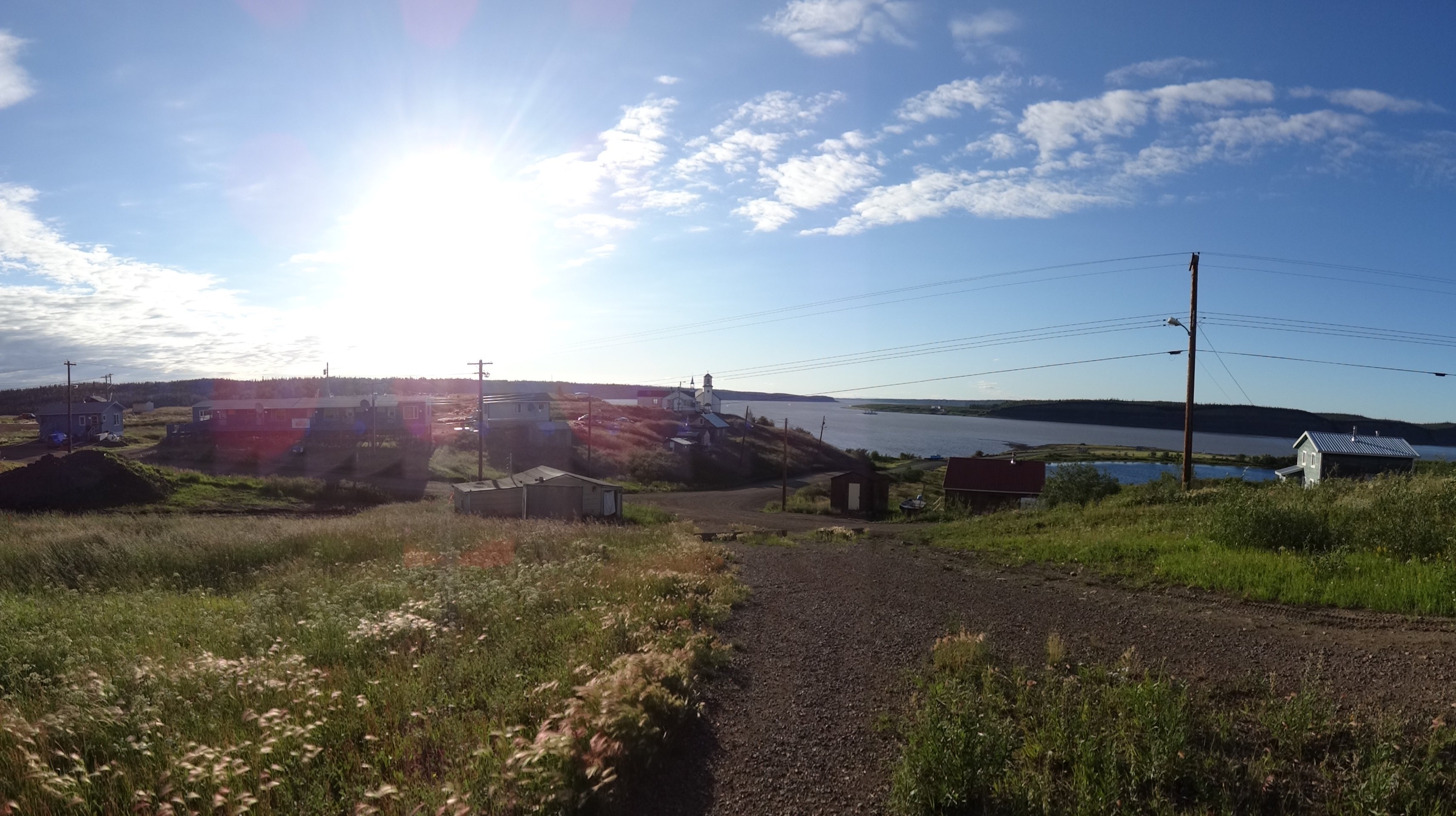 A view of the Church in Tsiigehtchich, NWT with the Arctic Red River and the MacKenzie River in the Background